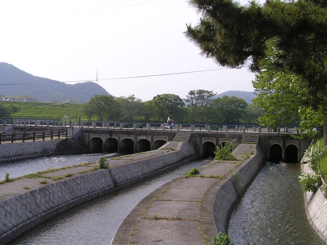 Sakazu sluiceway in Kurashiki City